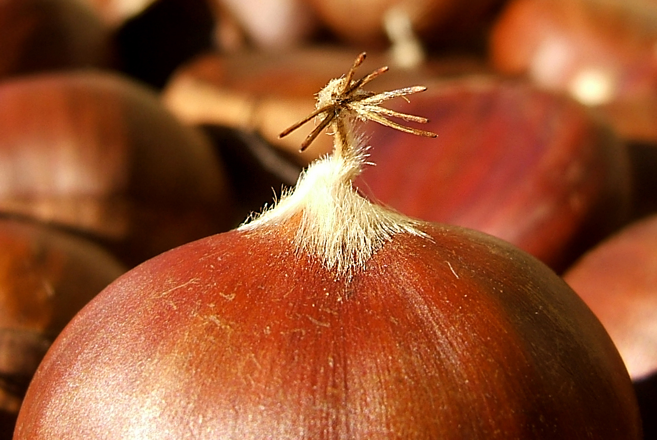 Sweet Chestnut